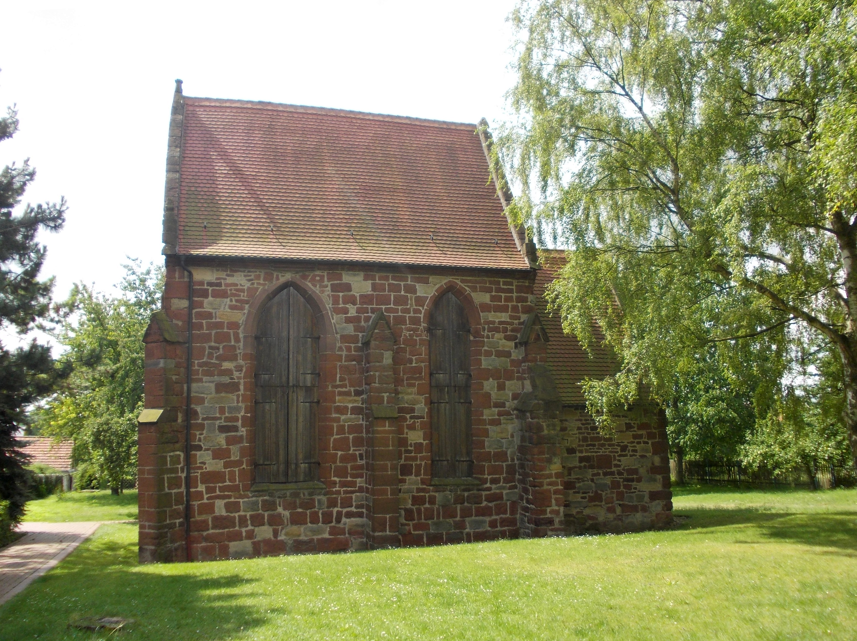 Abbot's Chapel of the former Cistercian monastery in Sittichenbach (Eisleben, Mansfeld-Südharz district, Saxony-Anhalt), today a Protestant church